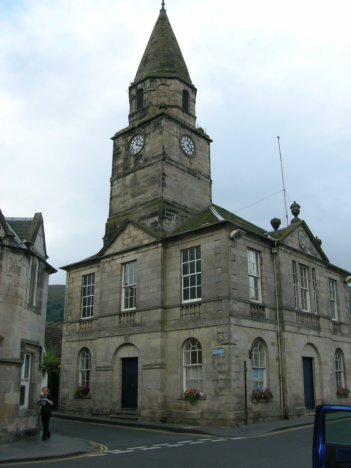 Falkland Town Hall